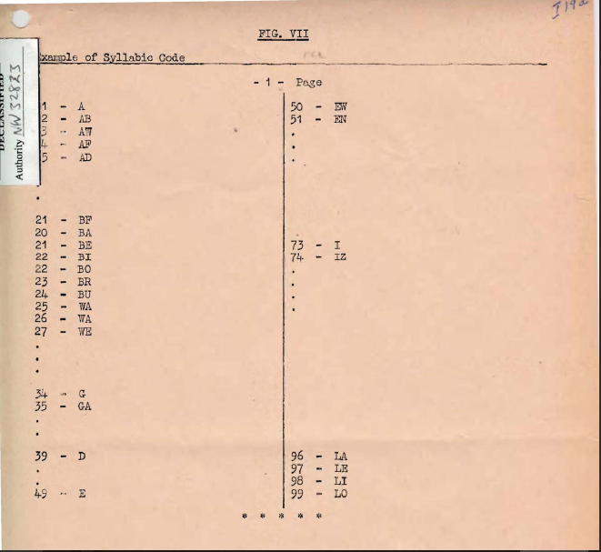 Figure VII of TICOM document I-19d Report on Interrogation of KONA 1 at Revin, France, June 1945. Image is of 3-Figure Syllabic code book. Other information Image is printer on Orange Blotter paper. All TICOM documents are in the public domain, and this has already been decided by Dianna.